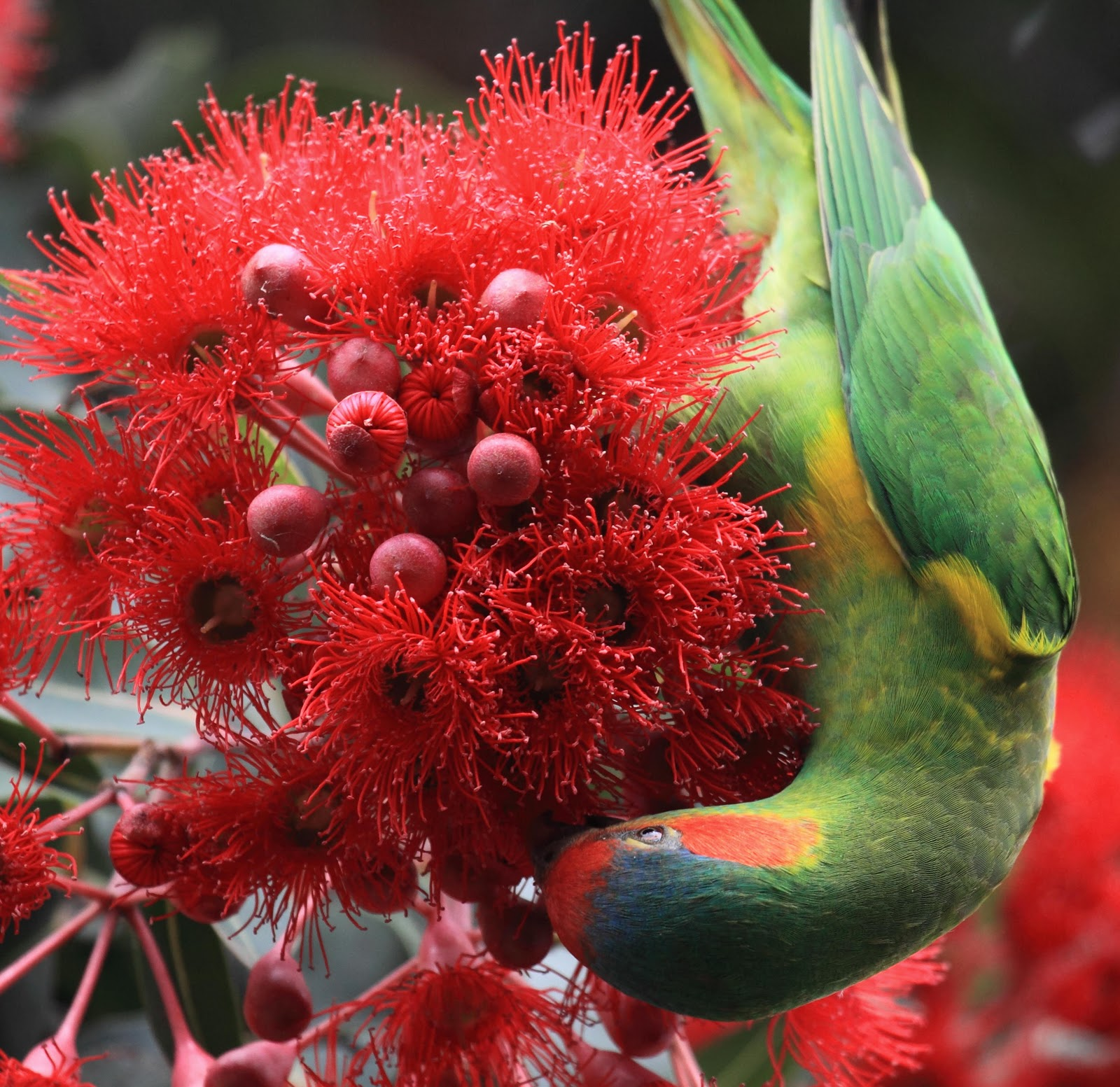 Musk Lorikeet (Glossopsitta concinna), Cheltenham Park, Victoria, Australia